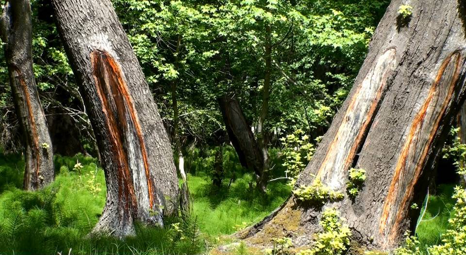 Trunks of liquidambar orientalis (Oriental sweetgum) that have been stripped for extracting styrax